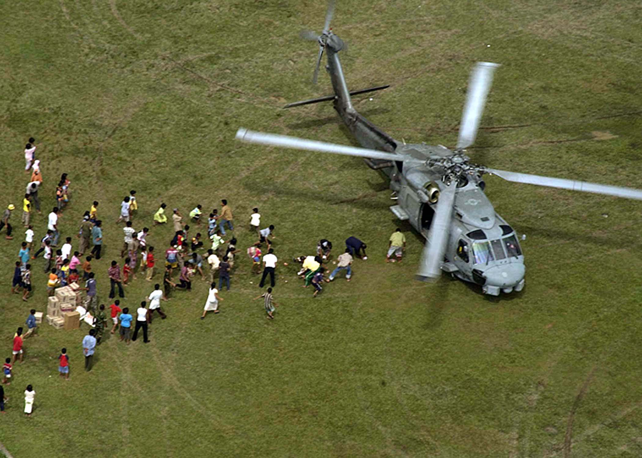 Island of Sumatra, Indonesia (Jan. 16, 2005) - An SH-60B Seahawk helicopter, assigned to the "Saberhawks" of Helicopter Anti-Submarine Squadron Light Four Seven (HSL-47), lands to drop off relief supplies to Tsunami victims on the island of Sumatra, Indonesia. Helicopters assigned to Carrier Air Wing Two (CVW-2) and Sailors from USS Abraham Lincoln (CVN 72) are supporting Operation Unified Assistance, the humanitarian operation effort in the wake of the Tsunami that struck South East Asia. The Abraham Lincoln Carrier Strike Group is currently operating in the Indian Ocean off the waters of Indonesia and Thailand. U.S. Navy photo by Photographer's Mate Airman Robert W. Kelley IV (RELEASED)